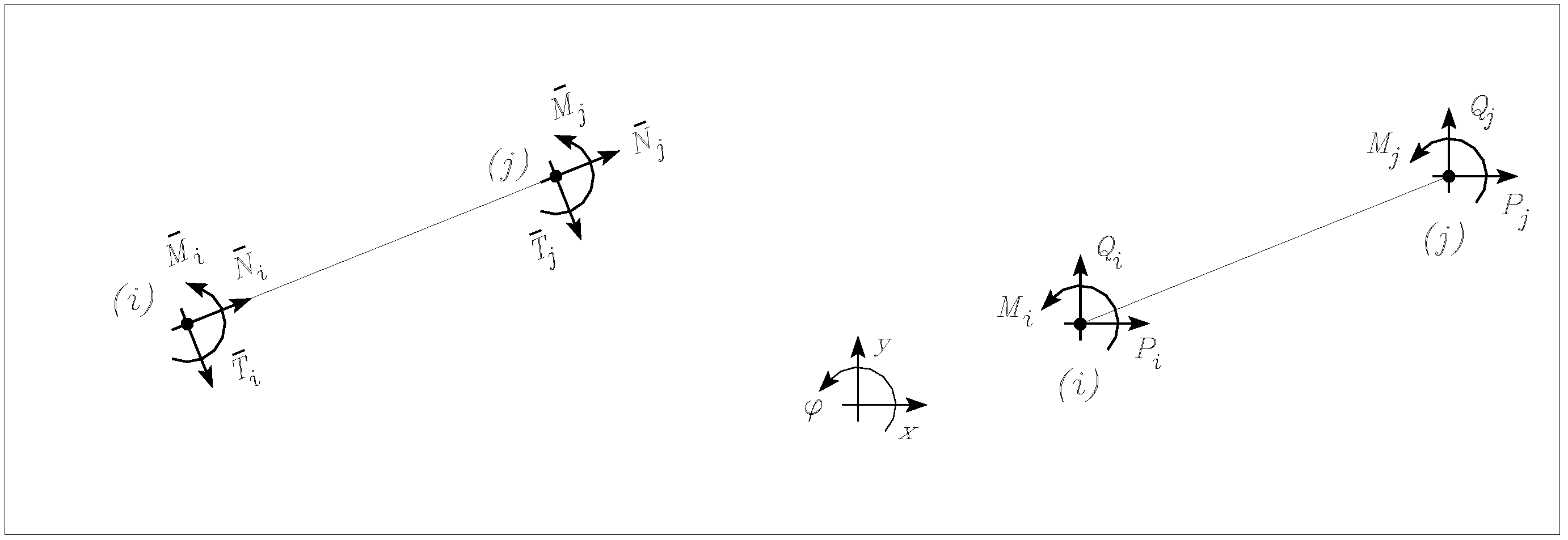 Local and global Force parameters of a beam